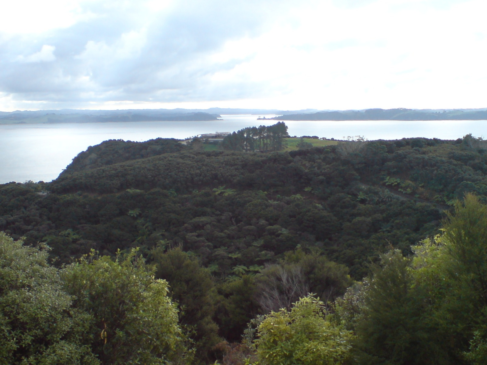 The Eagles Nest villa compound in Bay of Islands, New Zealand. Photographed from Flagstaff Hill looking north.